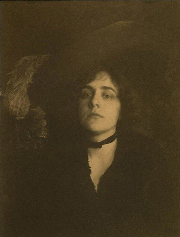 Ethel Reed in plumed hat